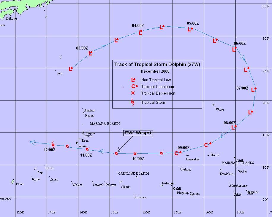 Track map of Typhoon Dolphin. It Shows the unusual pretropicalcyclone Track of Typhoon Dolphin